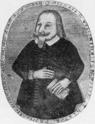 Mikael Wexionius (1608 or 1609 – 1670), Finnish professor, supposedly depicted in 1650.